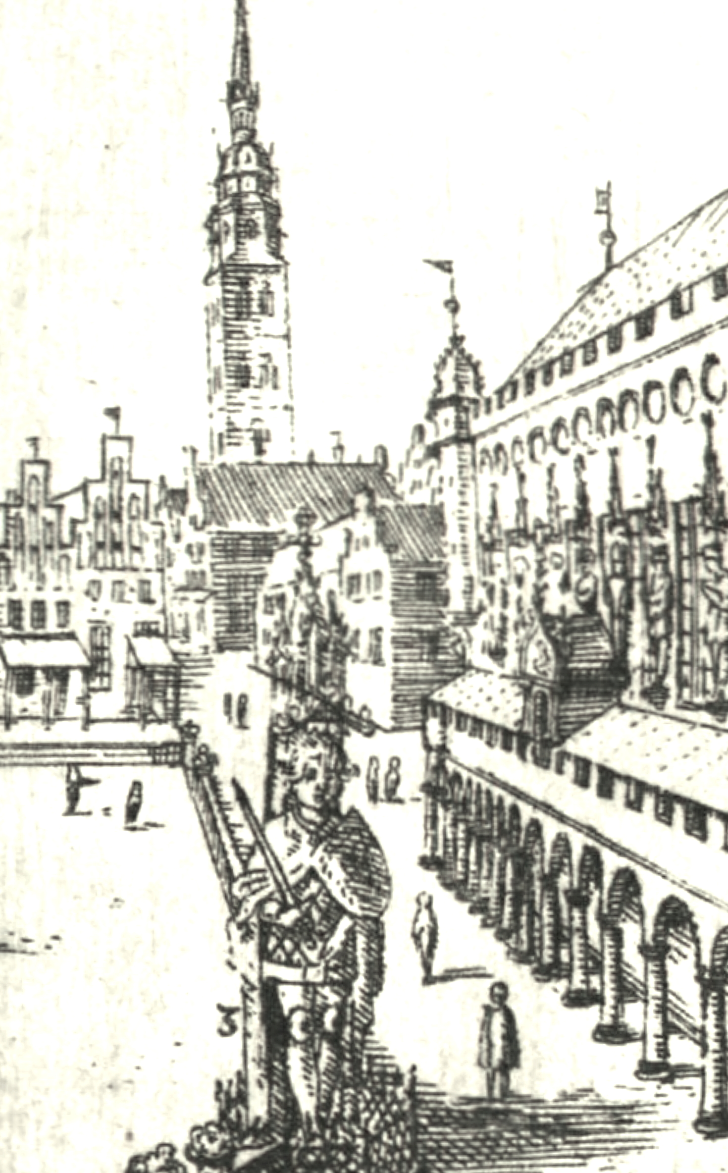 View from the Roland sculpture on Bremen market place in 1603 towards the entrance of Obernstraße and the tower of St. Ansgar church